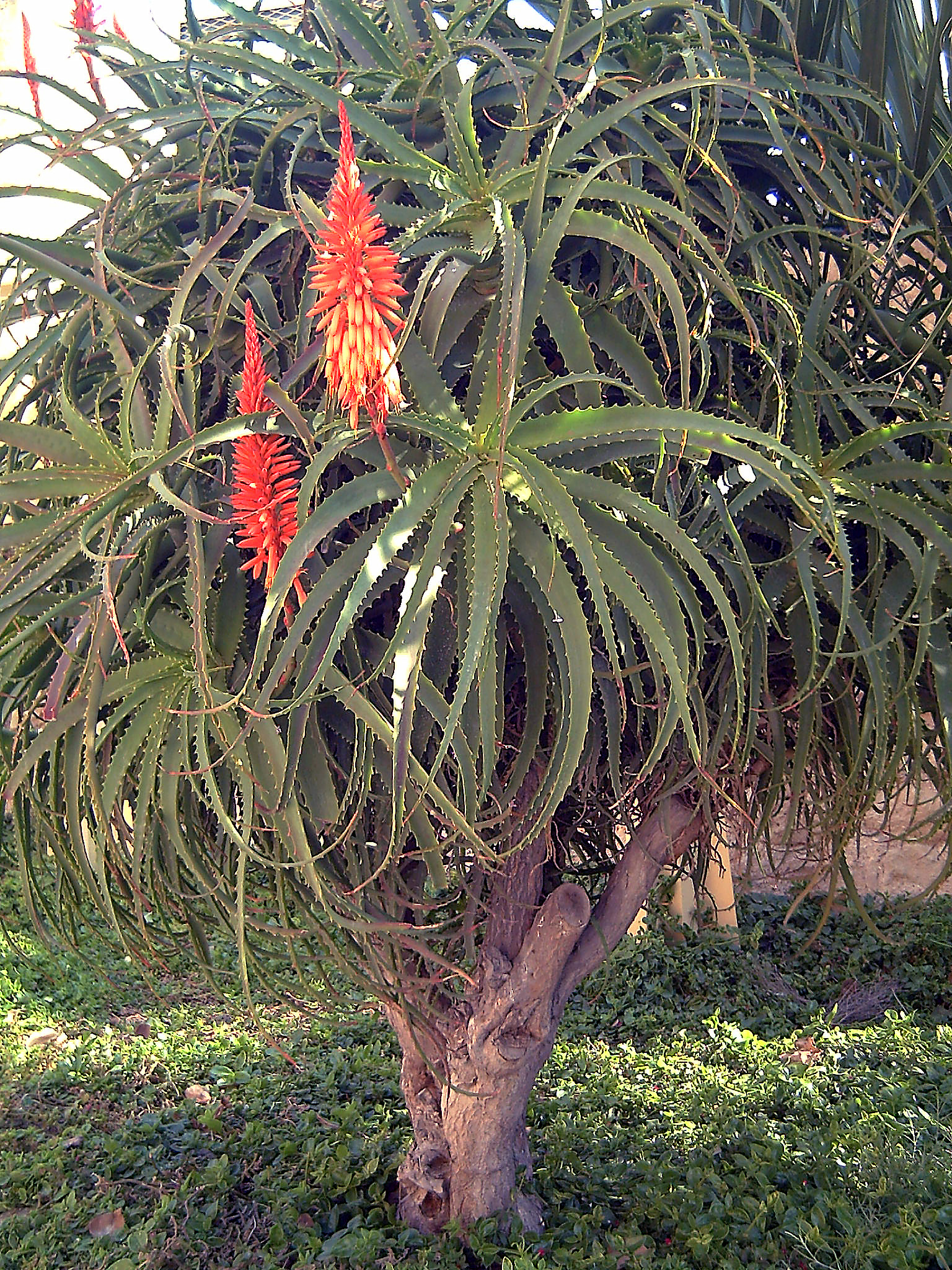 Aloe Kedongensis habit, "Castell de la Santa Bàrbara", Alicante, Spain